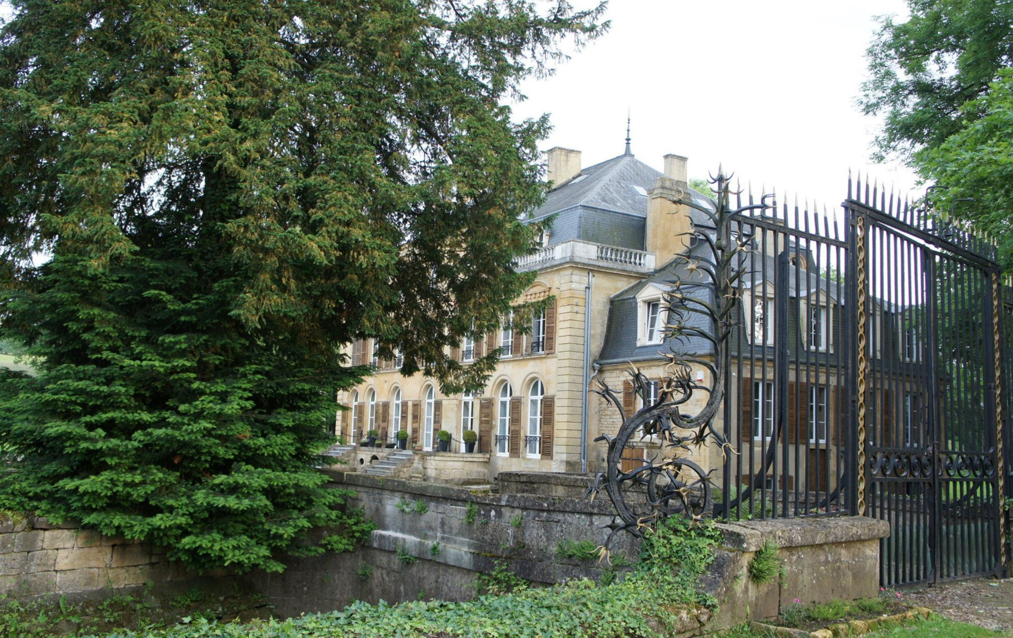 The Castle at Thonne-les-Prés